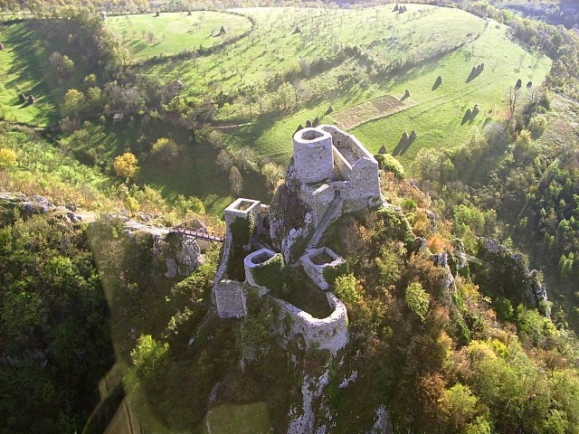 The castle of Srebrenik seen from a helicopter